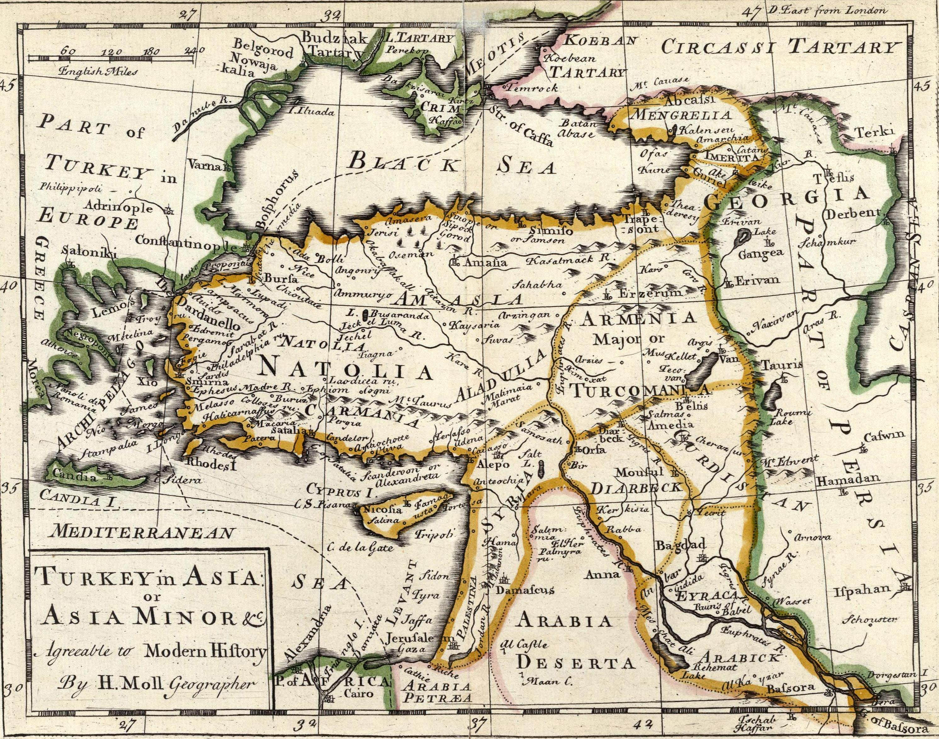 Turkey in Asia; or Asia Minor &c. Agreeable to modern history. By H. Moll Geographer. (Printed and sold by T. Bowles next ye Chapter House in St. Pauls Church yard, & I. Bowles at ye Black Horse in Cornhill, 1736?)